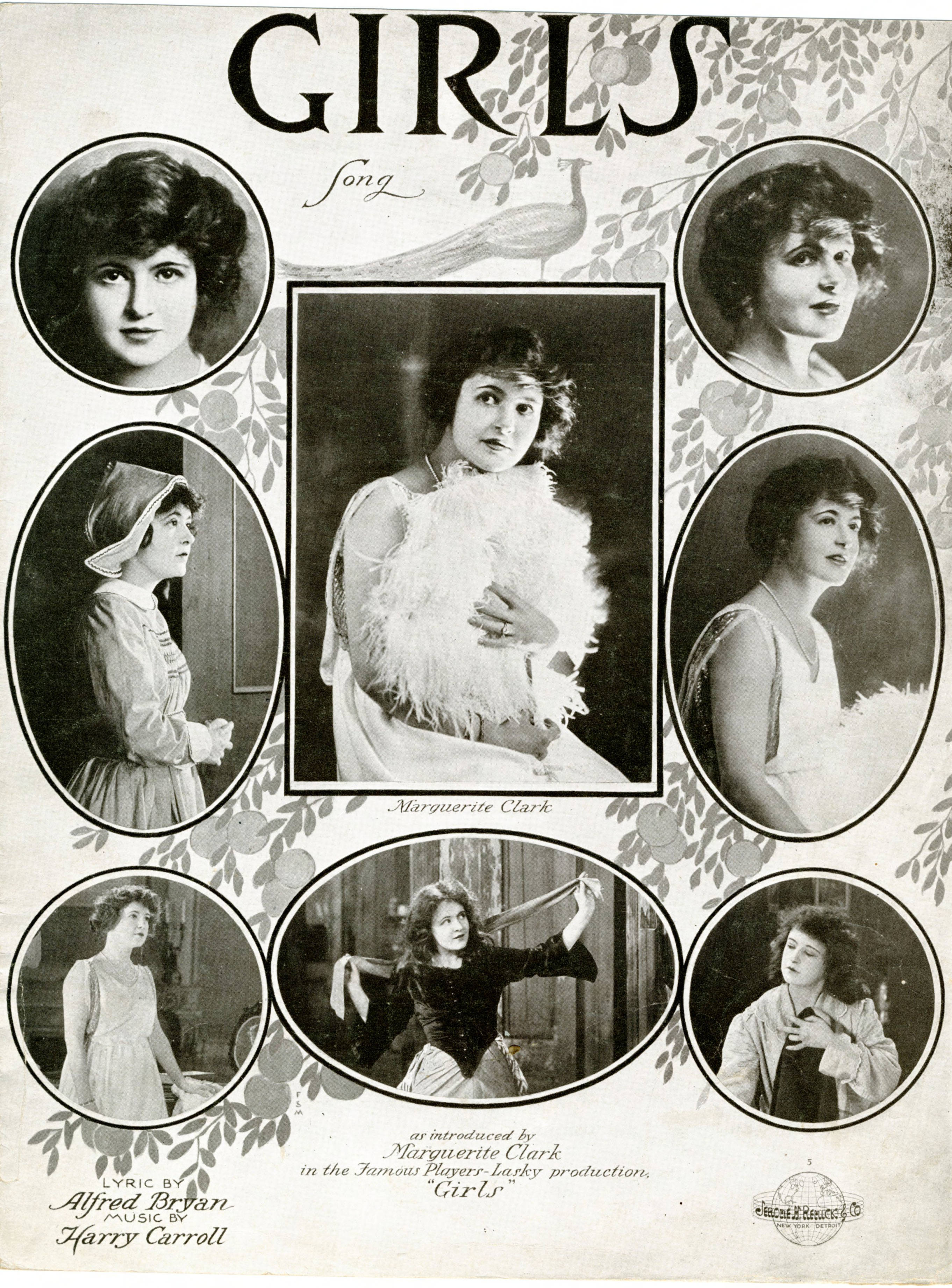 Sheet music cover: "Girls" 1 vocal score (3 p.) ; 31 cm. Illustrated cover with image of Marguerite Clark. Girls (Motion picture : 1919)